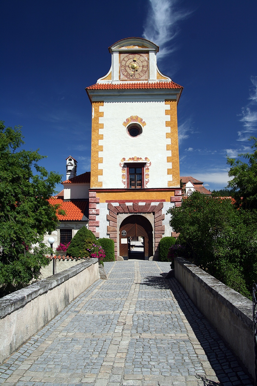 Castle Kratochvile, gate